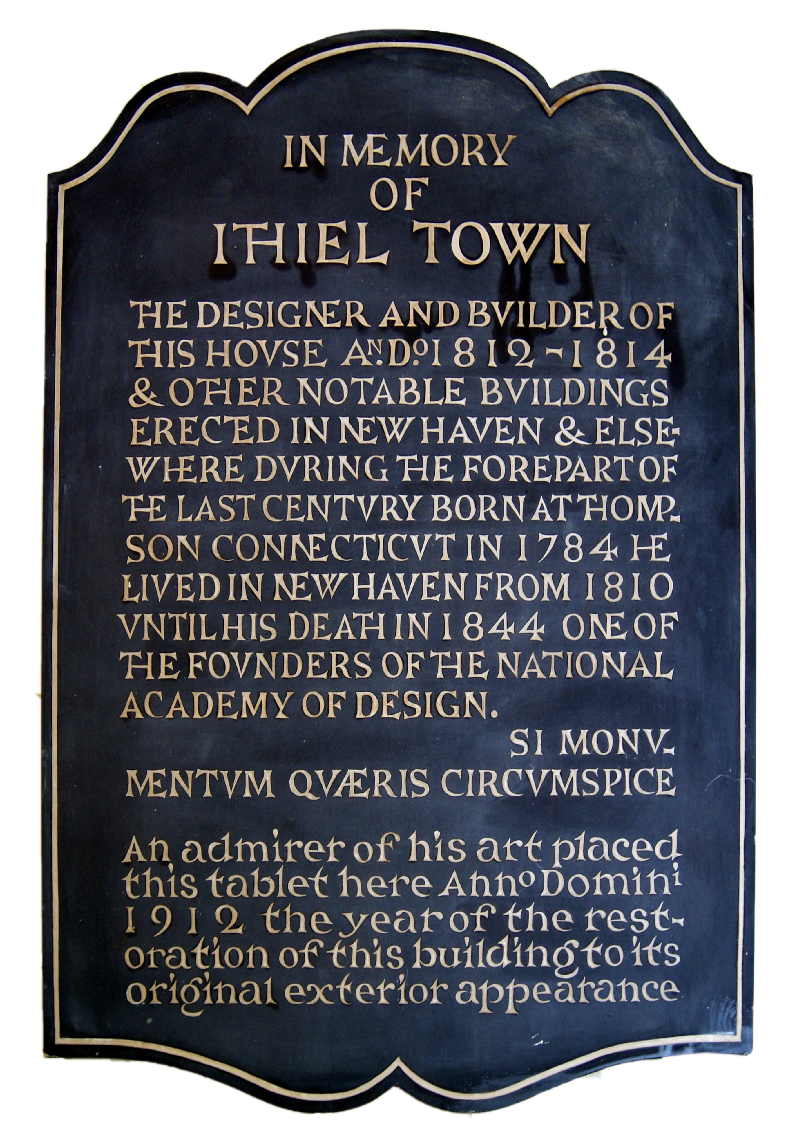 A memorial plaque to Ithiel Town in the Center Church on the Green, New Haven, Connecticut, USA. Town and Asher Bejamin were the architects who designed the church building.